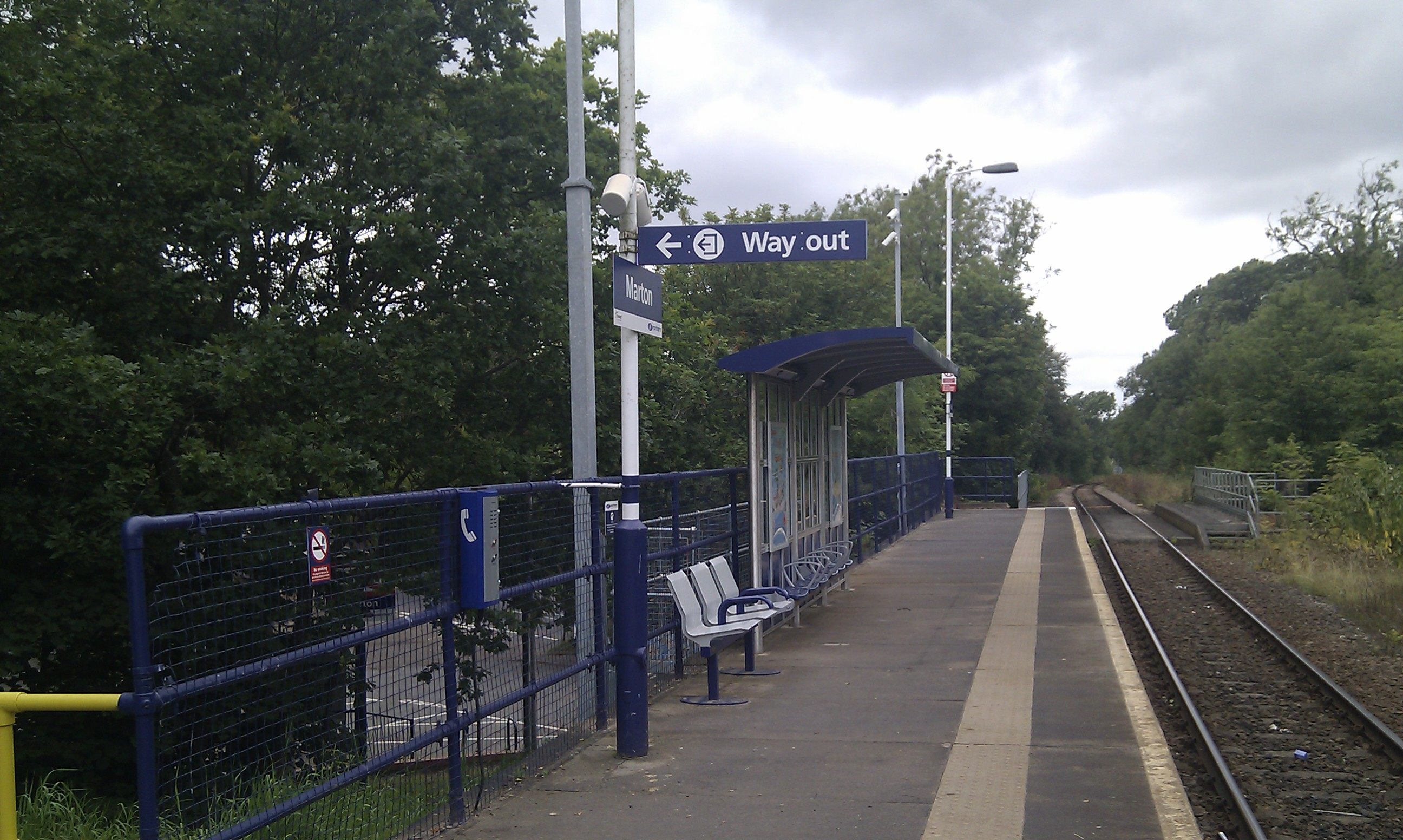 Marton railway station July2014